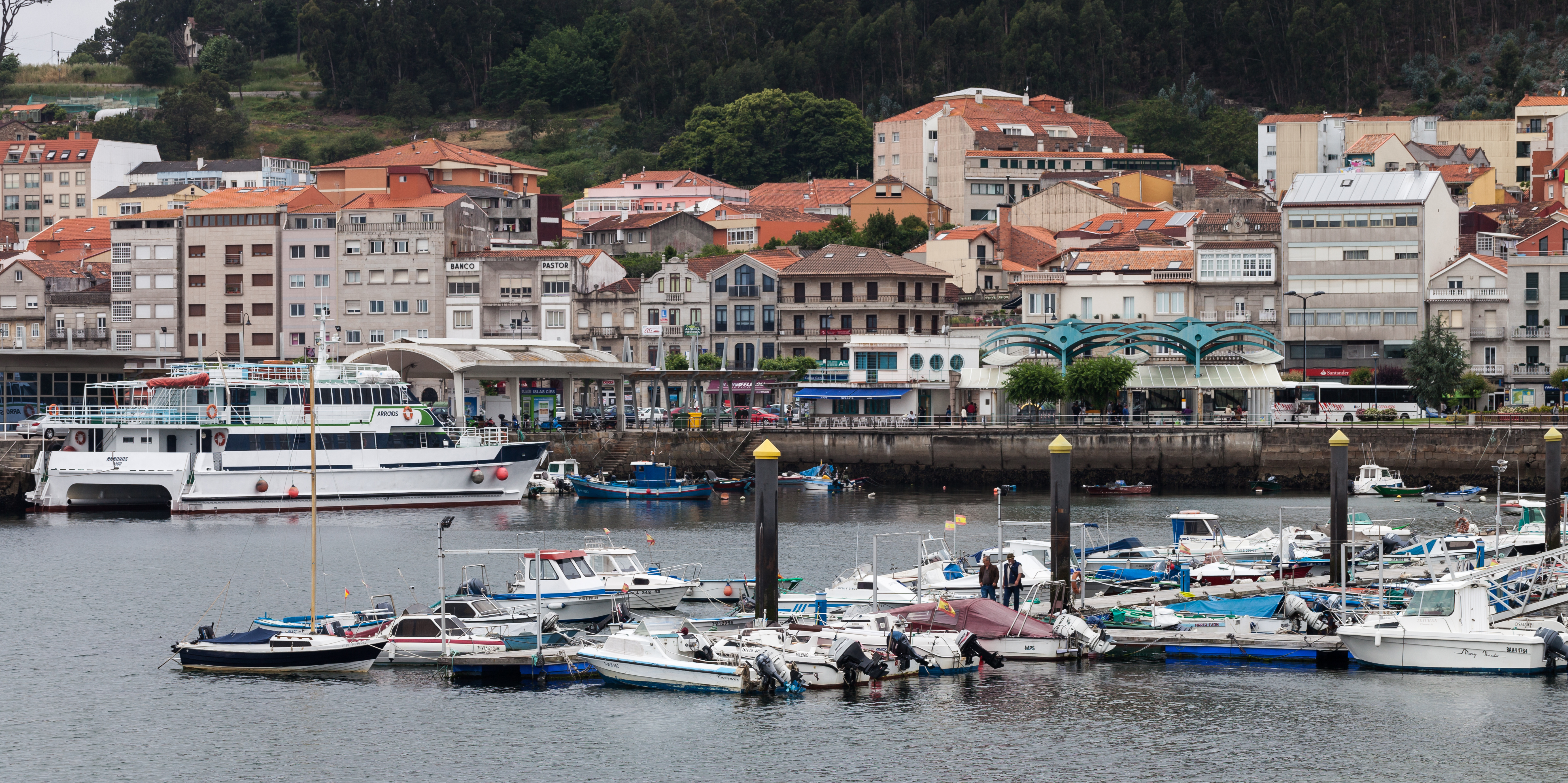 Port of Cangas. Galicia (Spain)